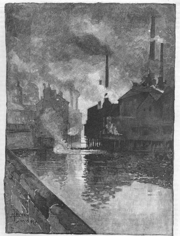 One of the illustrations from an article beginning “One beauty of Sheffield is that you can see very little of it at a time.” Harper's Magazine 8, 1884